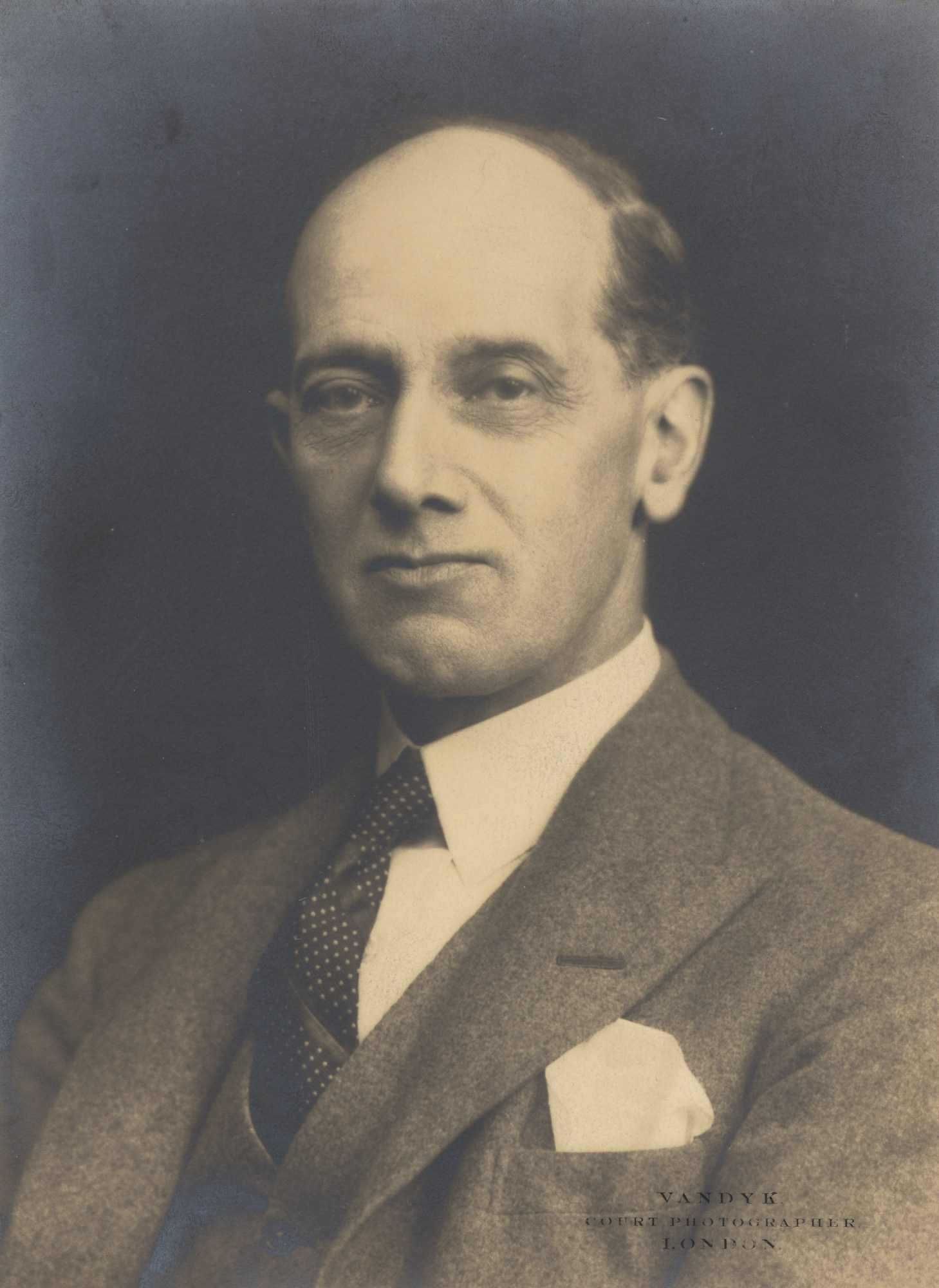 Portrait of the English architect William Curtis Green